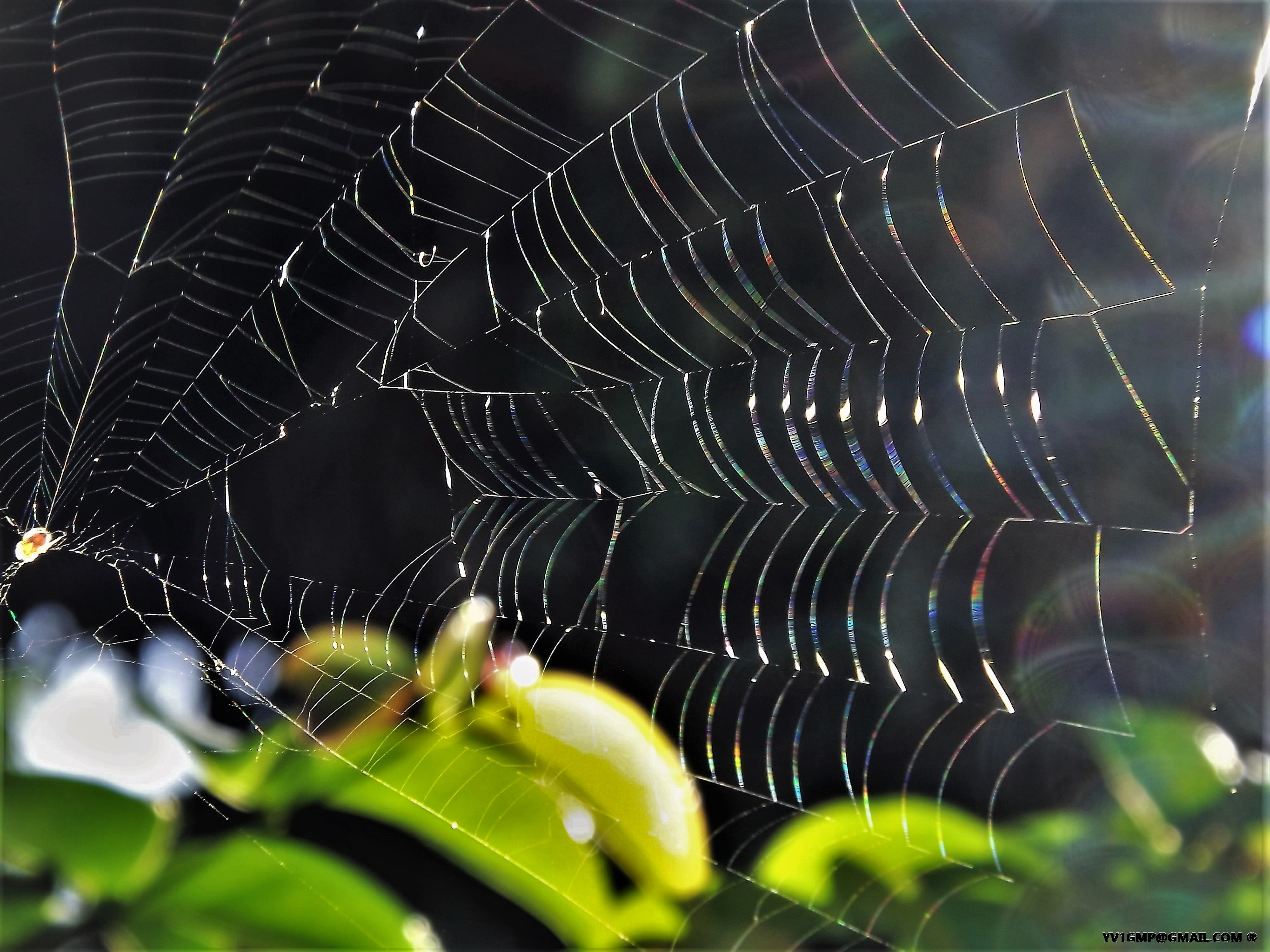 Refraction of sunlight in a cobweb